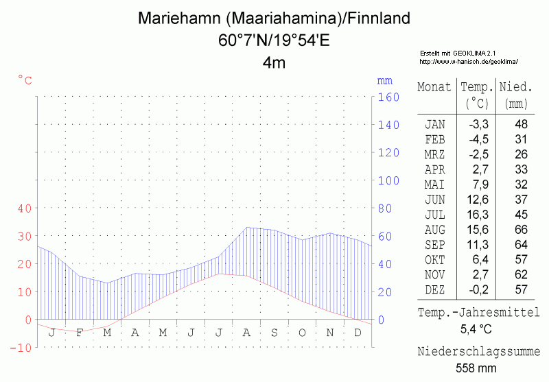 climate chart in the format by Walther and Lieth, metric, °Celsisus and millimeters, made with Geoklima 2.1